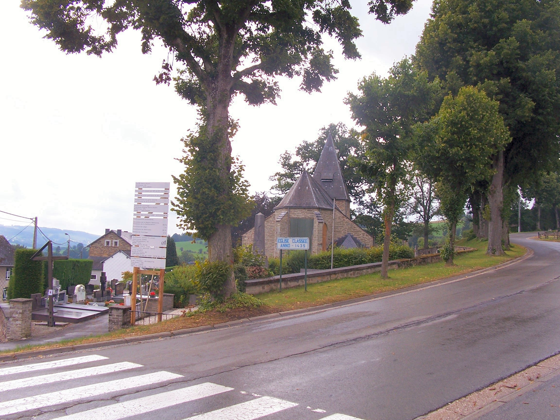 The Bellevaux (Malmedy) church.